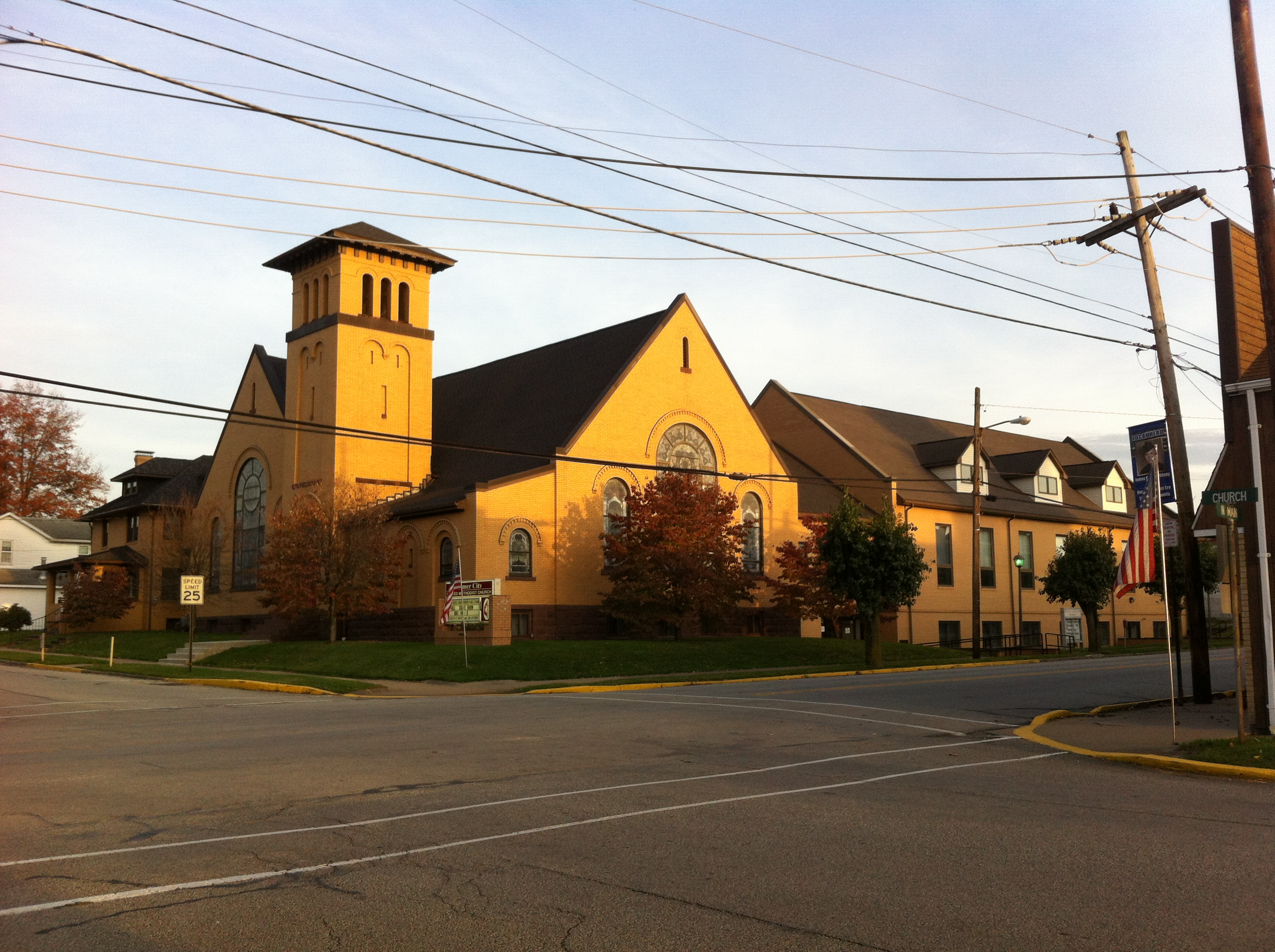 A church on main street in Homer City, Pennsylvania